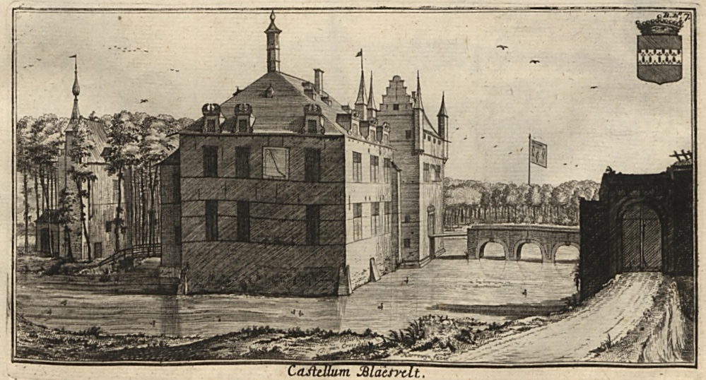 Blaasveld Castle